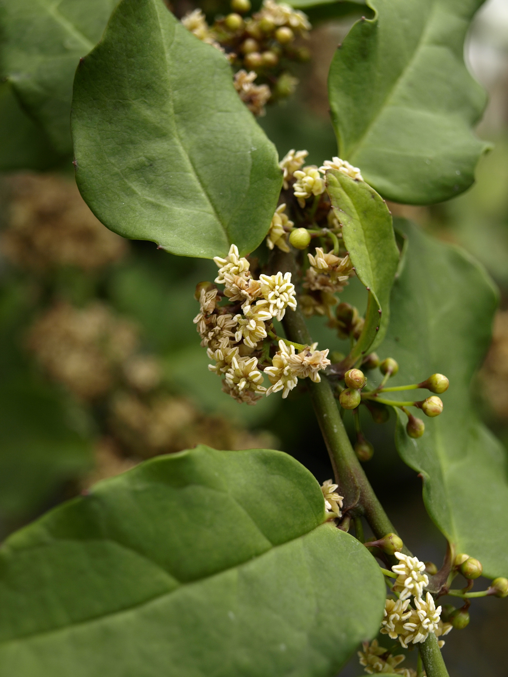 Amborella trichopoda. Greenhouse, Florida International University, Miami, Florida, USA